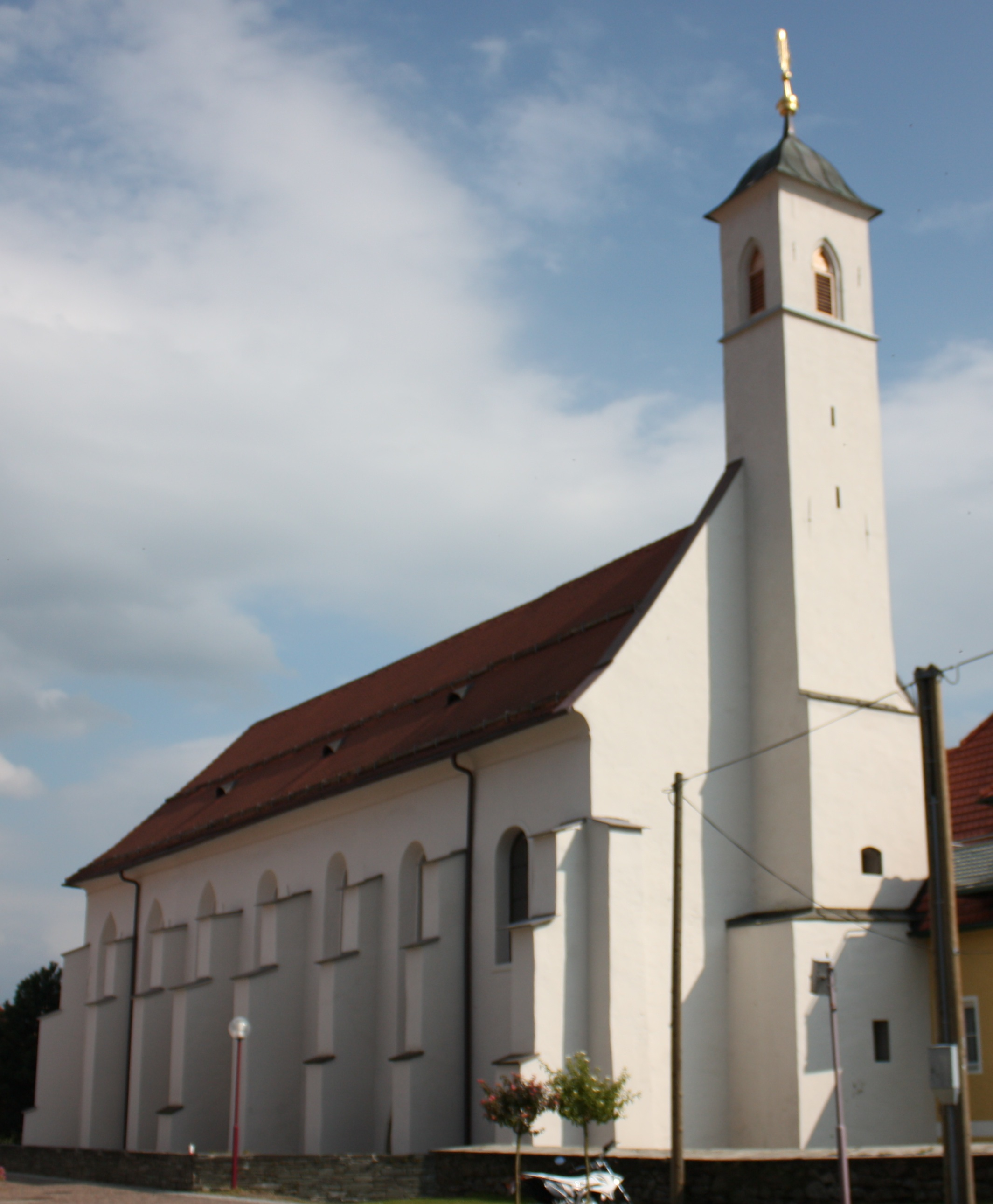 Cloister church Locality:Oktoberplatz 5, Sankt Veit an der Glan Community:Sankt Veit an der Glan